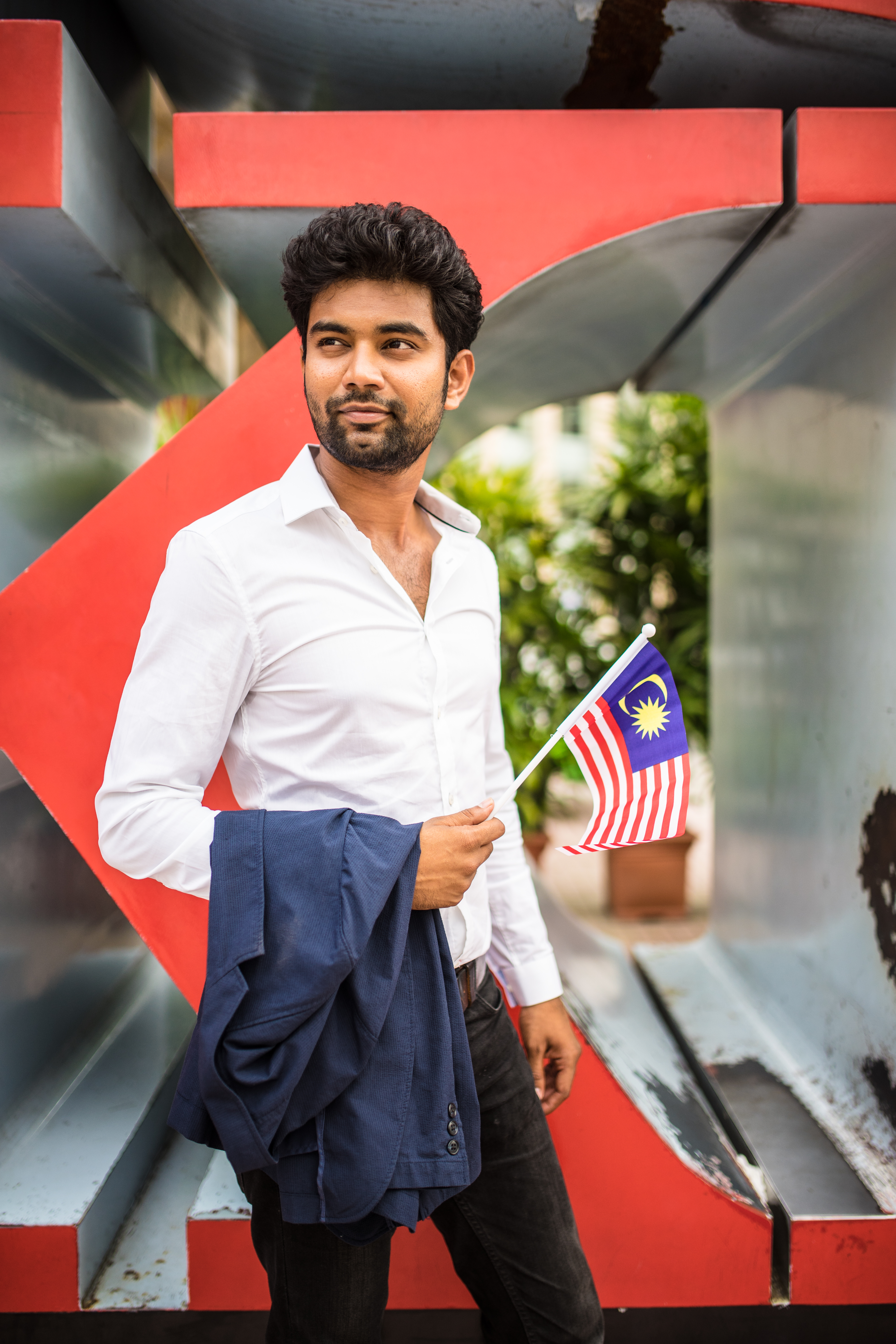 Bala Ganapathi William I love Malaysia campaign actor